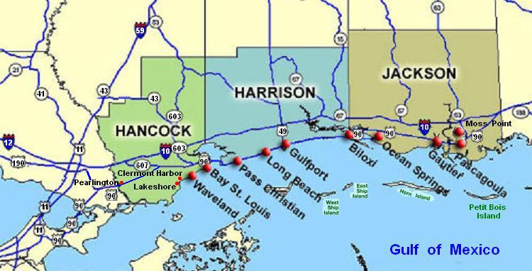 Mississippi coastal towns along the Gulf of Mexico (from NOAA map), adding Lakeshore, Mississippi, Clermont Harbor, and Moss Point, Mississippi.